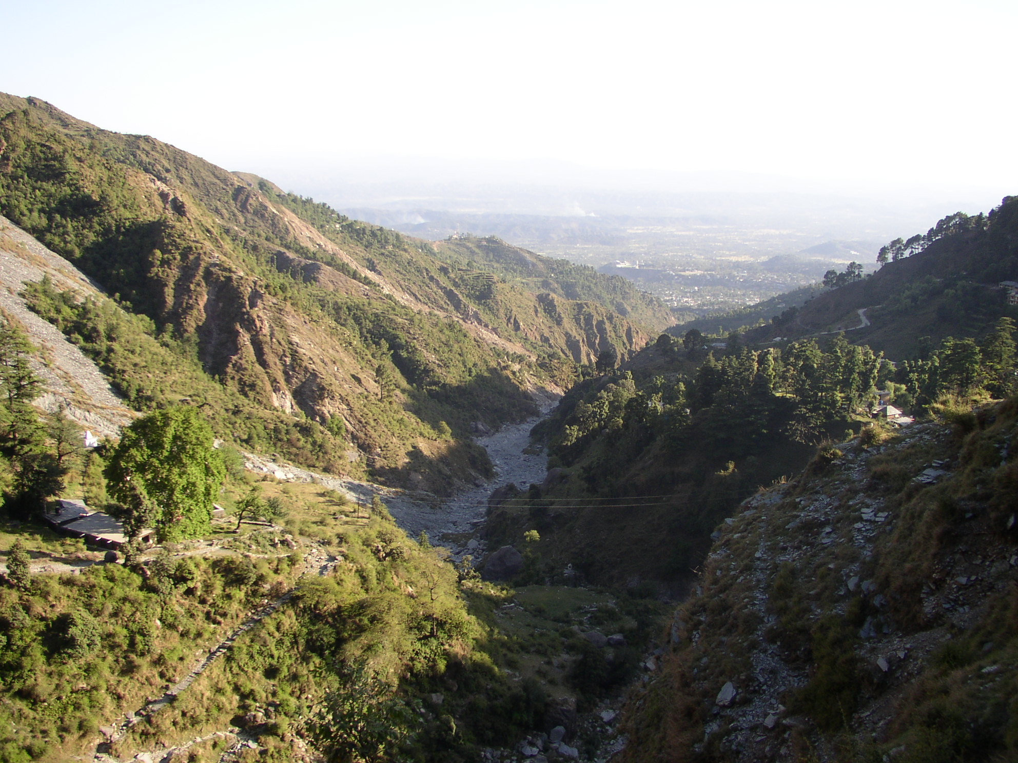 View outside the valley of Dharamsala (India, Himachal Pradesh) taken in May.